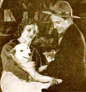 Still from the American film serial The Red Glove (1919) with Marie Walcamp and Patrick H. O'Malley, Jr., on page 461 of the January 25, 1919 Moving Picture World.